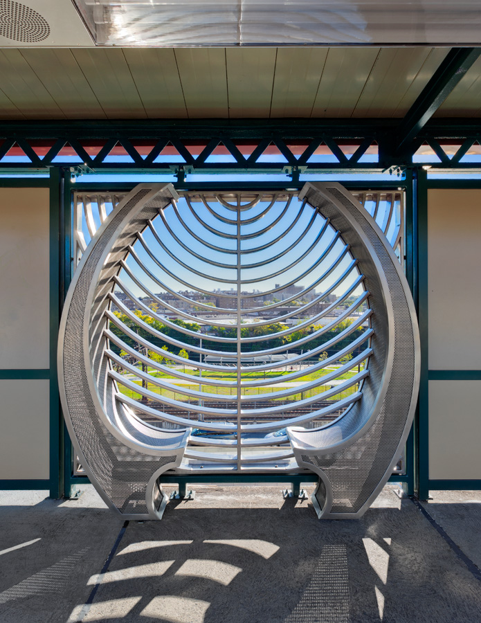 6 train service resumed to Elder Av. and St. Lawrence Av. on Oct. 16, 2011, after it had been suspended for station rehabilitation. The work is part of a project to rehabilitate five stations on the 6 line, including Whitlock Av, where new artwork, shown here, has been installed. This is Bronx River View (2010) by Barbara Grygutis. Photo by Metropolitan Transportation Authority / Peter Peirce.